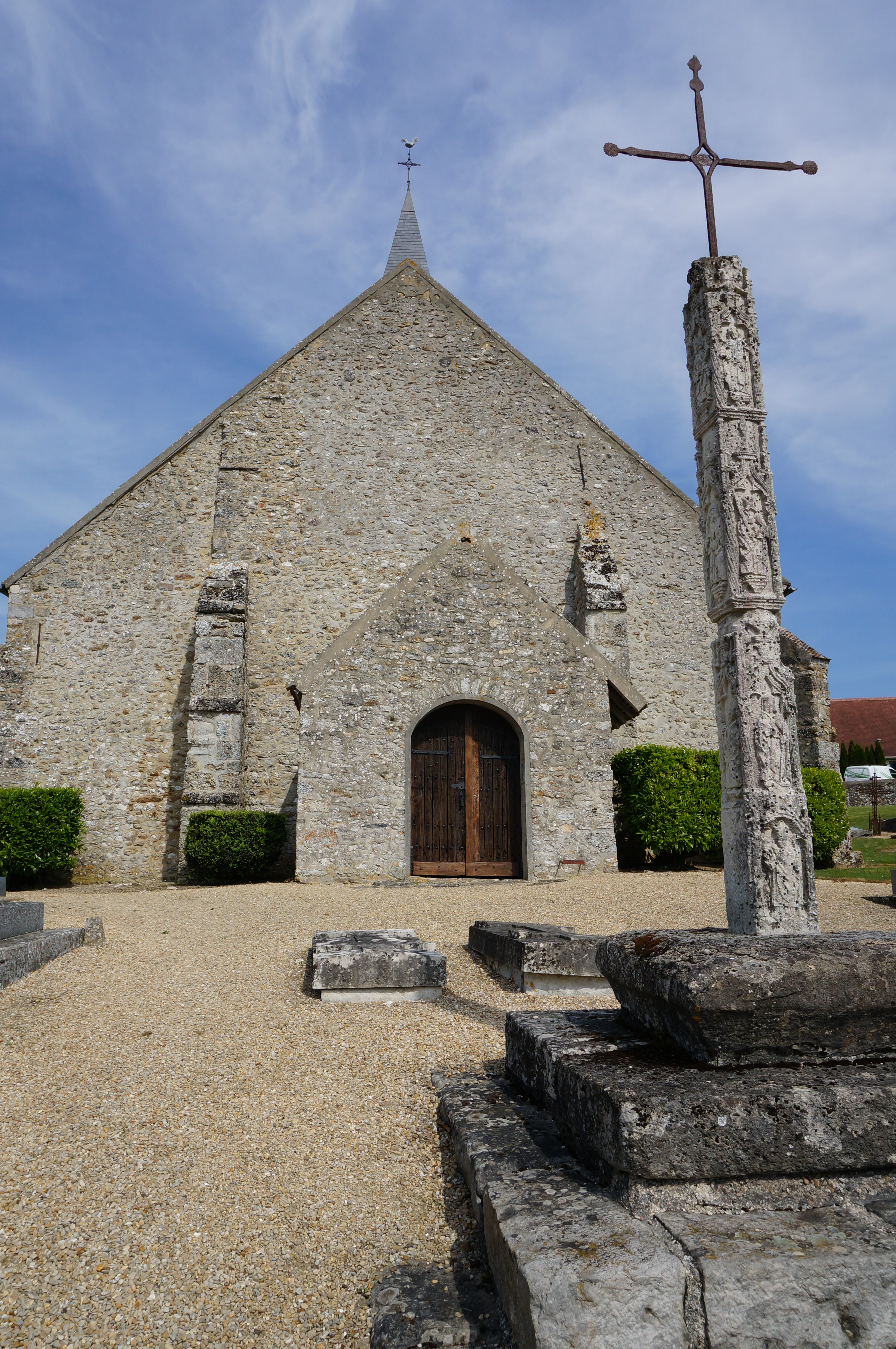 à Montfaucon.